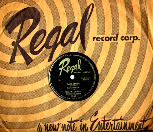 Example of the second US "Regal Records"